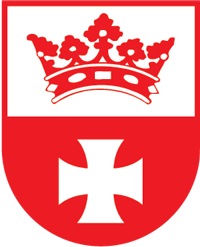 Coat of arms of Altstadt Königsberg